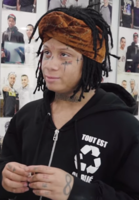 Trippie Redd visiting Icebox